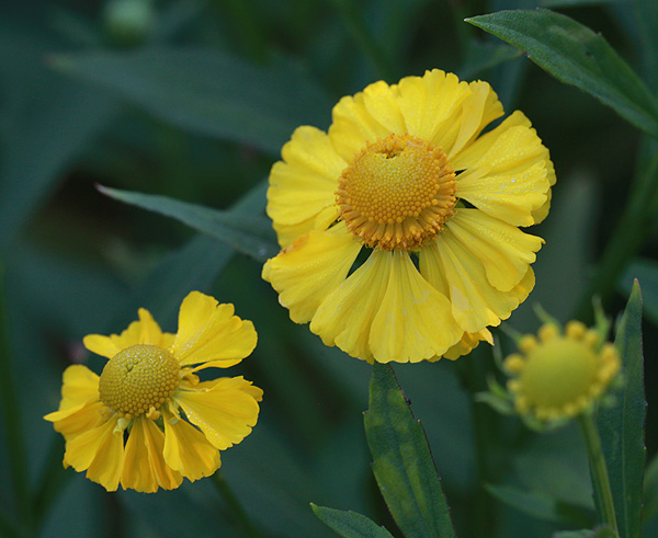 Helenium 'Butterpat'